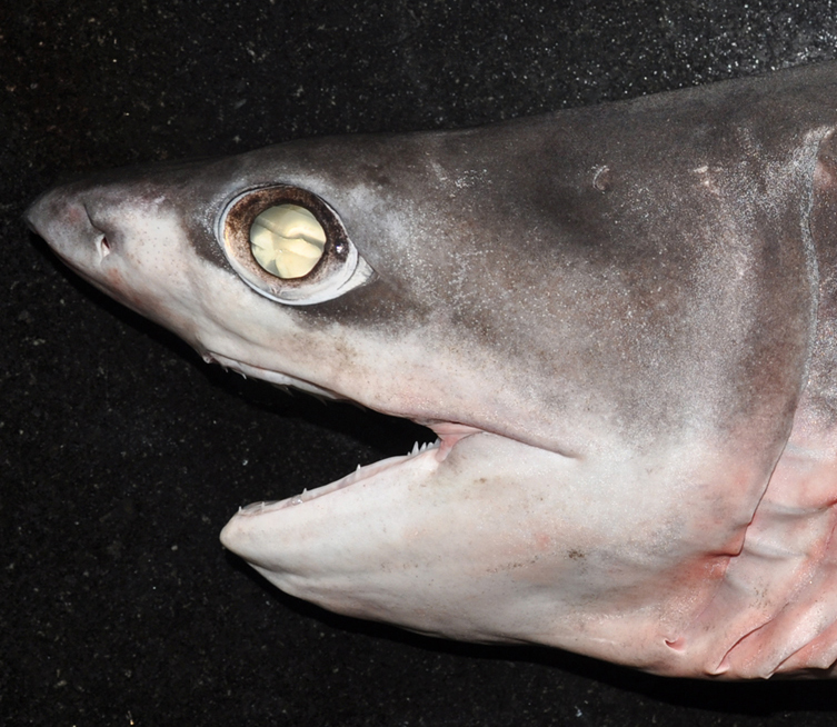 Sharpnose sevengill shark (Heptranchias perlo) caught off Cochin, India (from FishBase).